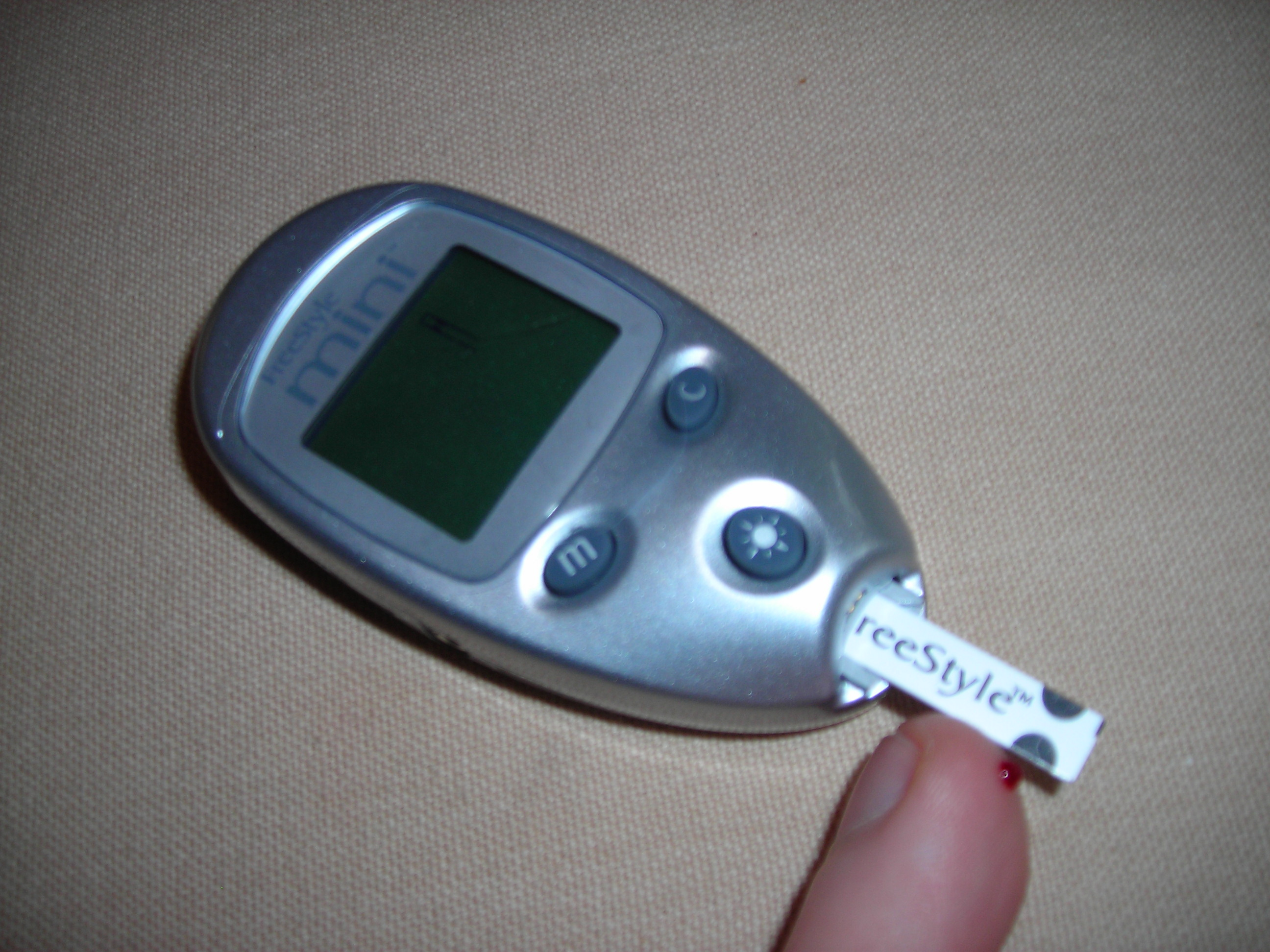 Testing the blood glucose level yourself